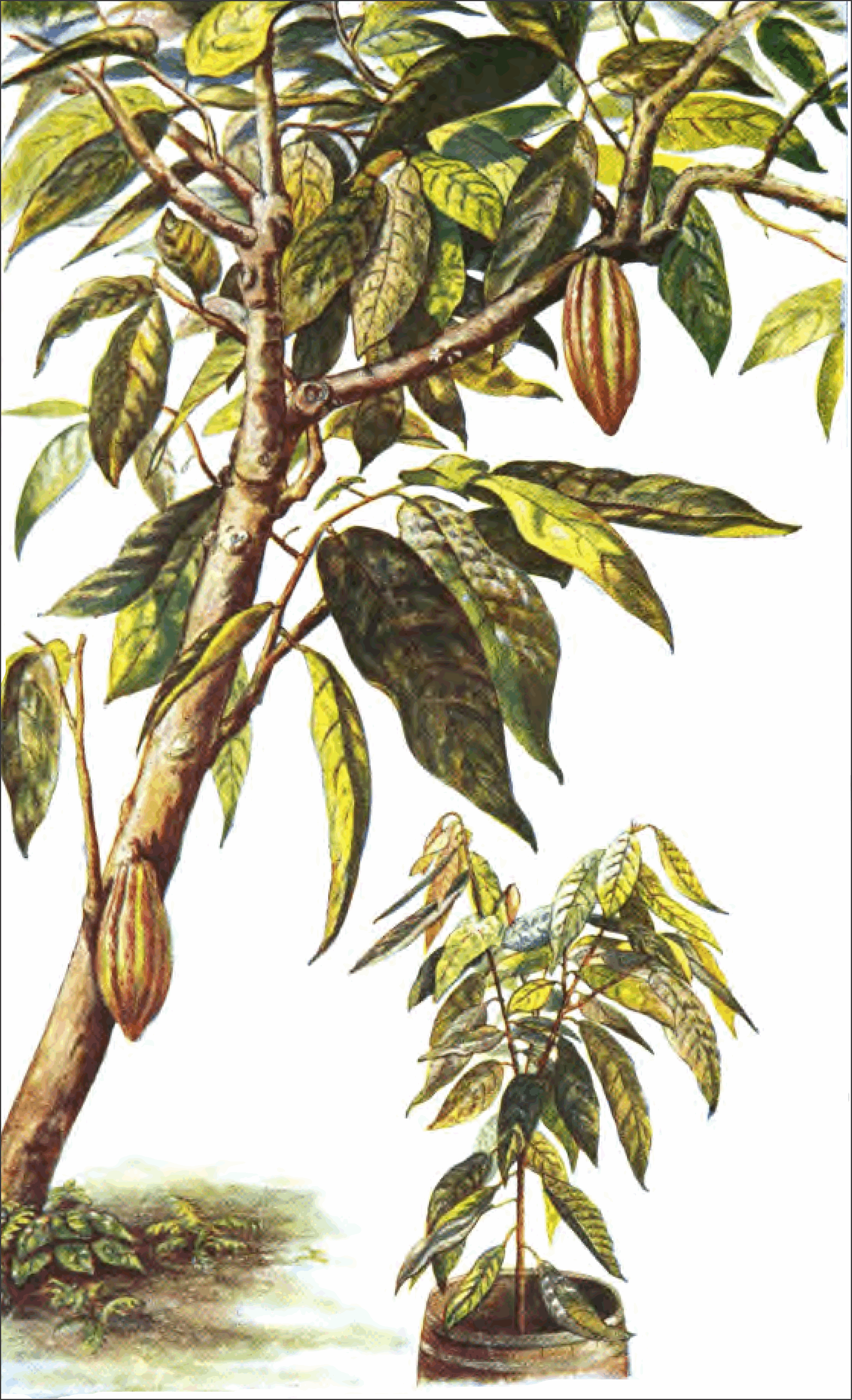 Cacao tree and seedling